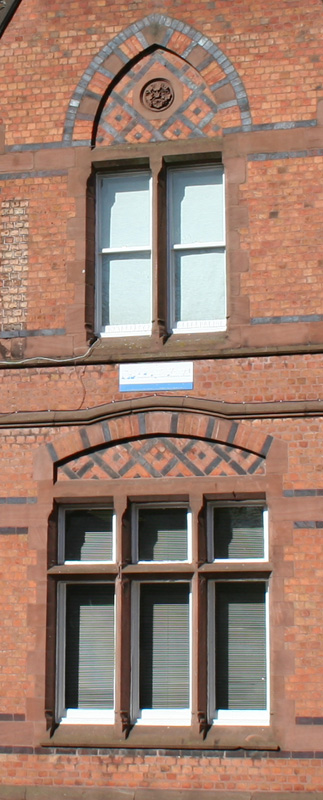 Former District Bank, 1–3 Churchyard Side, Nantwich, Cheshire